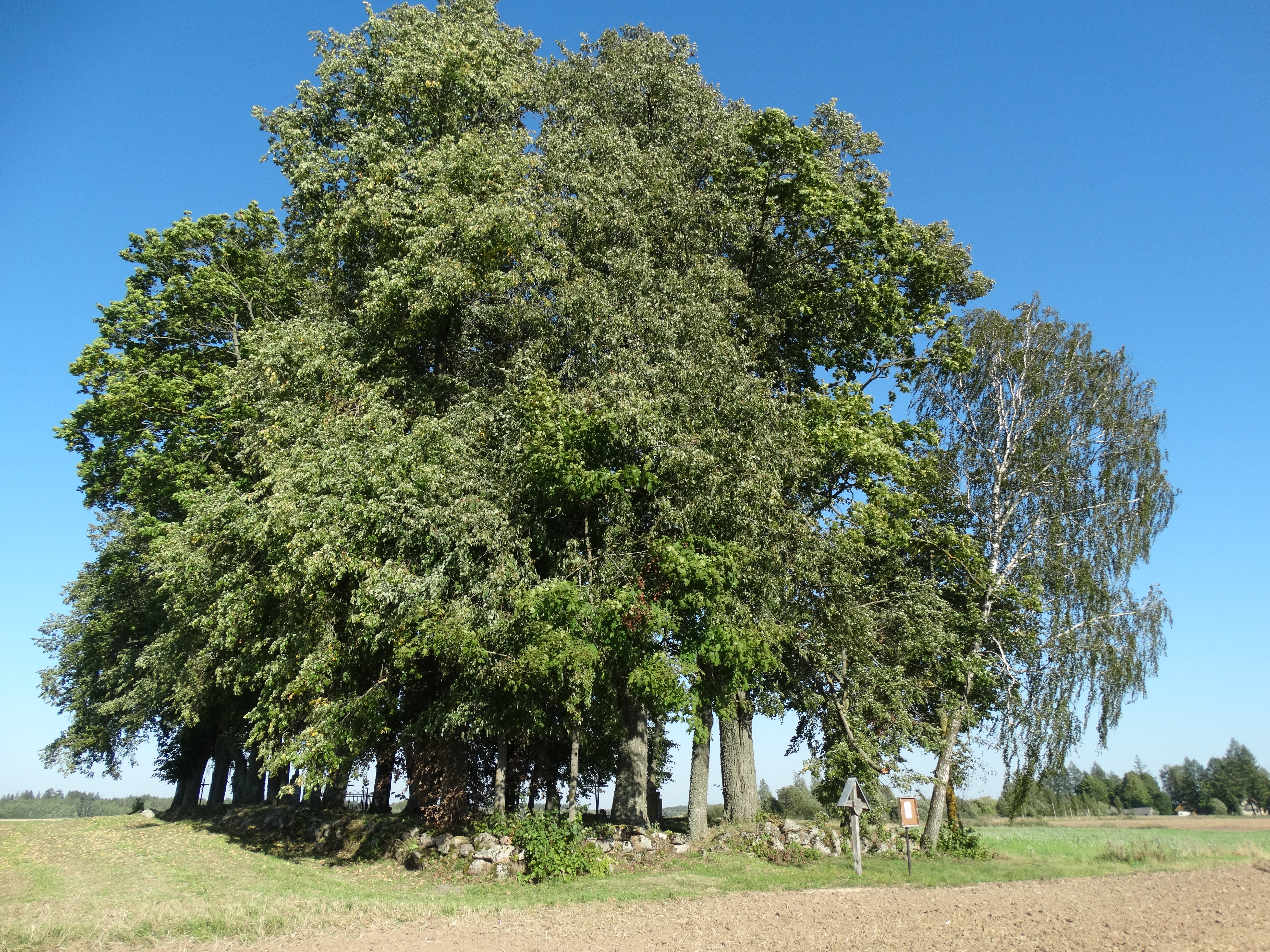 Old cemetery, Magūnai, Švenčionys District, Lithuania